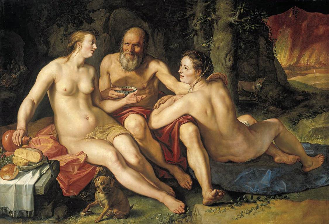 Lot and his daughters. Sitting under a tree Lot's daughters are seducing their father. All three figures are depicted naked and sitting or laying on the ground. The daughter on the left is holding a wine jar. Lot is holding a wine-drinking cup in his right hand. Bottom left stands a small table with cheeses and bread. A little dog is sitting by it. In the background on the right Sodom and Gomorrah are burning. In front of the fire Lot's wife, who was turned into a pillar of salt, is standing. Behind the tree a fox looks on.